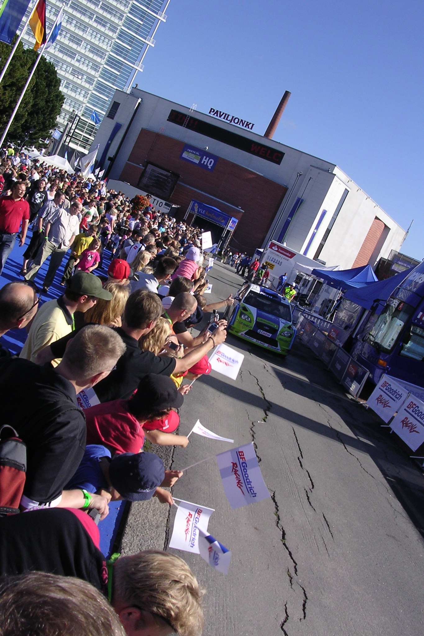 Markus Grönholm drives his Ford Focus WRC out of the service park at Paviljonki, Jyväskylä during day 2 of Neste Rally Finland 2006.